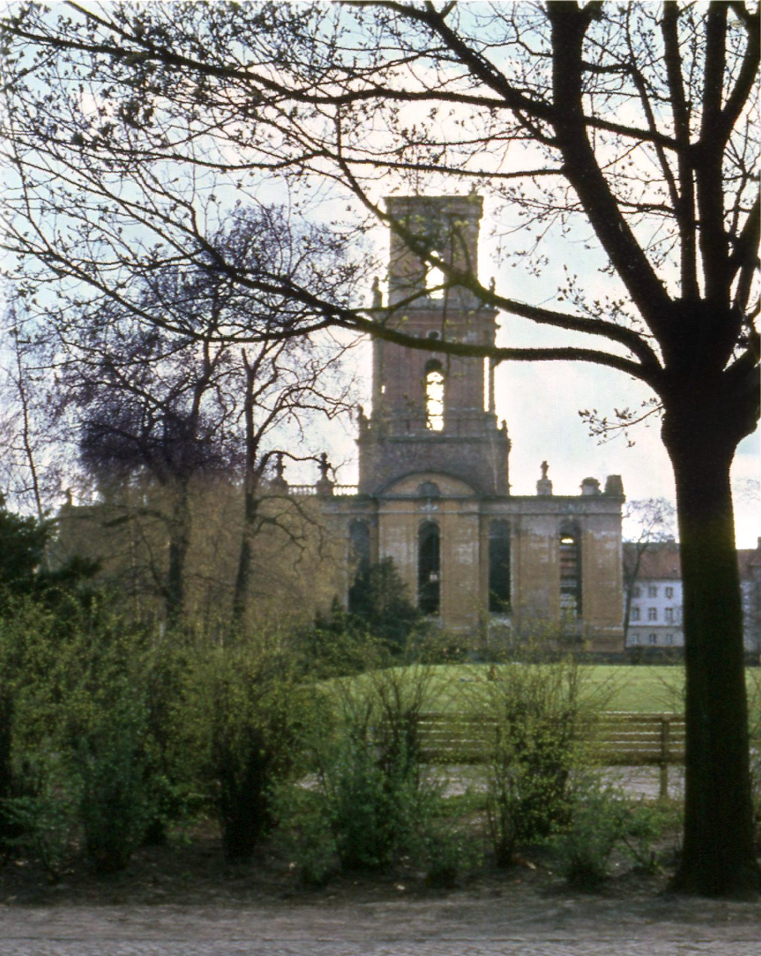 Ruins of Garnisonkirche in Potsdam